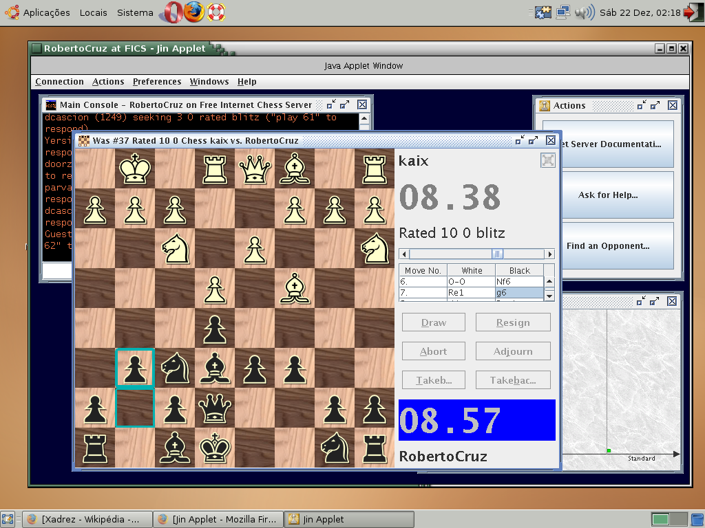 A chess game in .